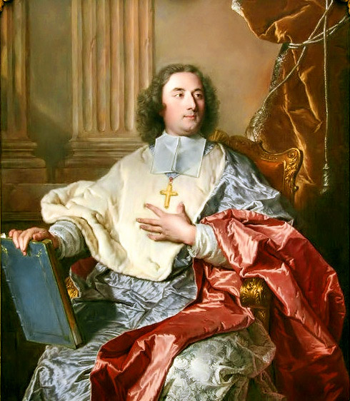 Charles de Saint-Albin, was the illegitimate son of Philippe d'Orléans, and a dancer at the opera